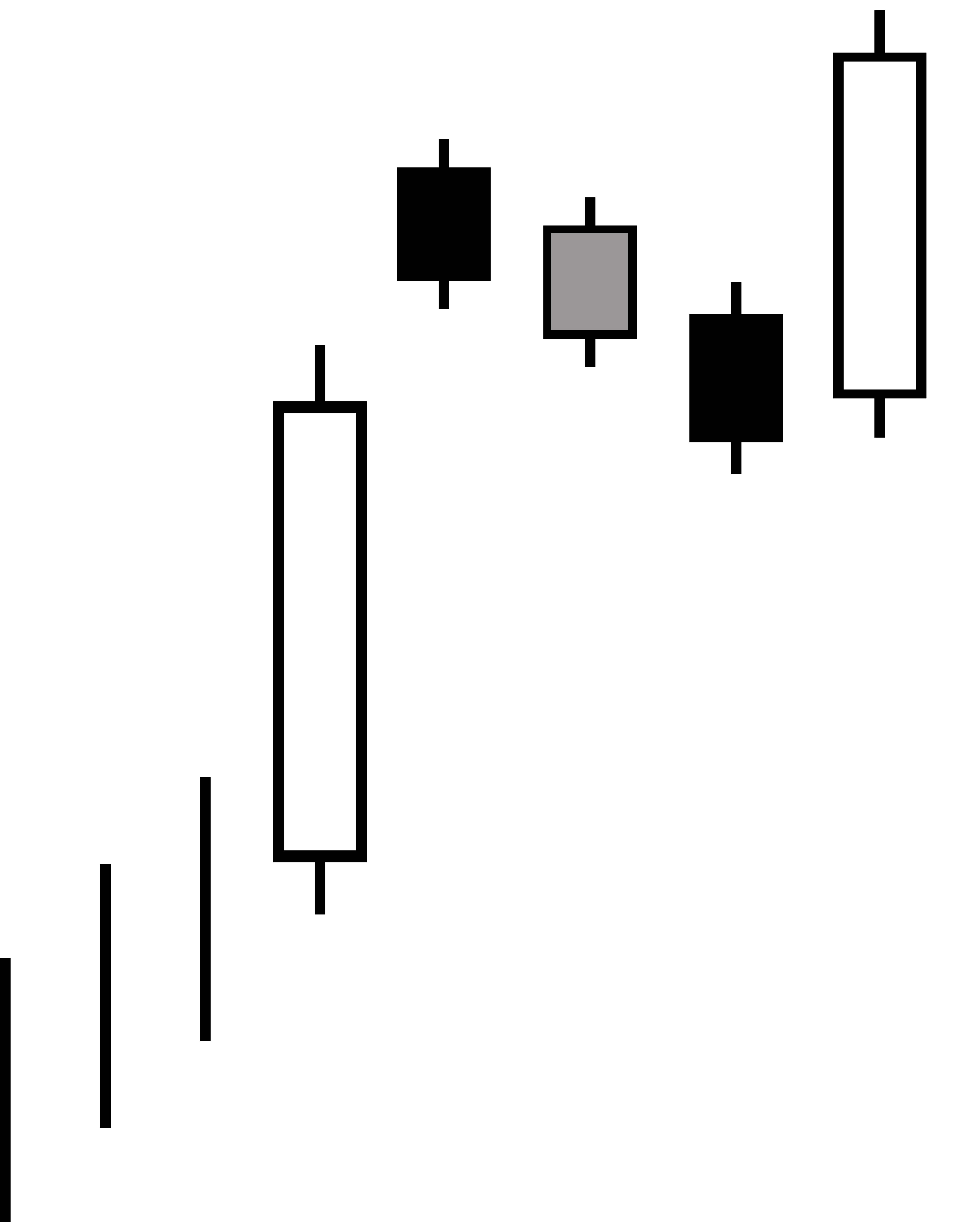 Bullish Mat Hold